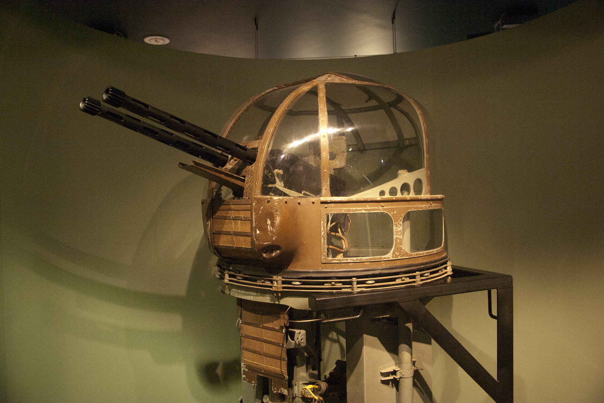 Beaufort gun turret on display at the RAAF Museum.